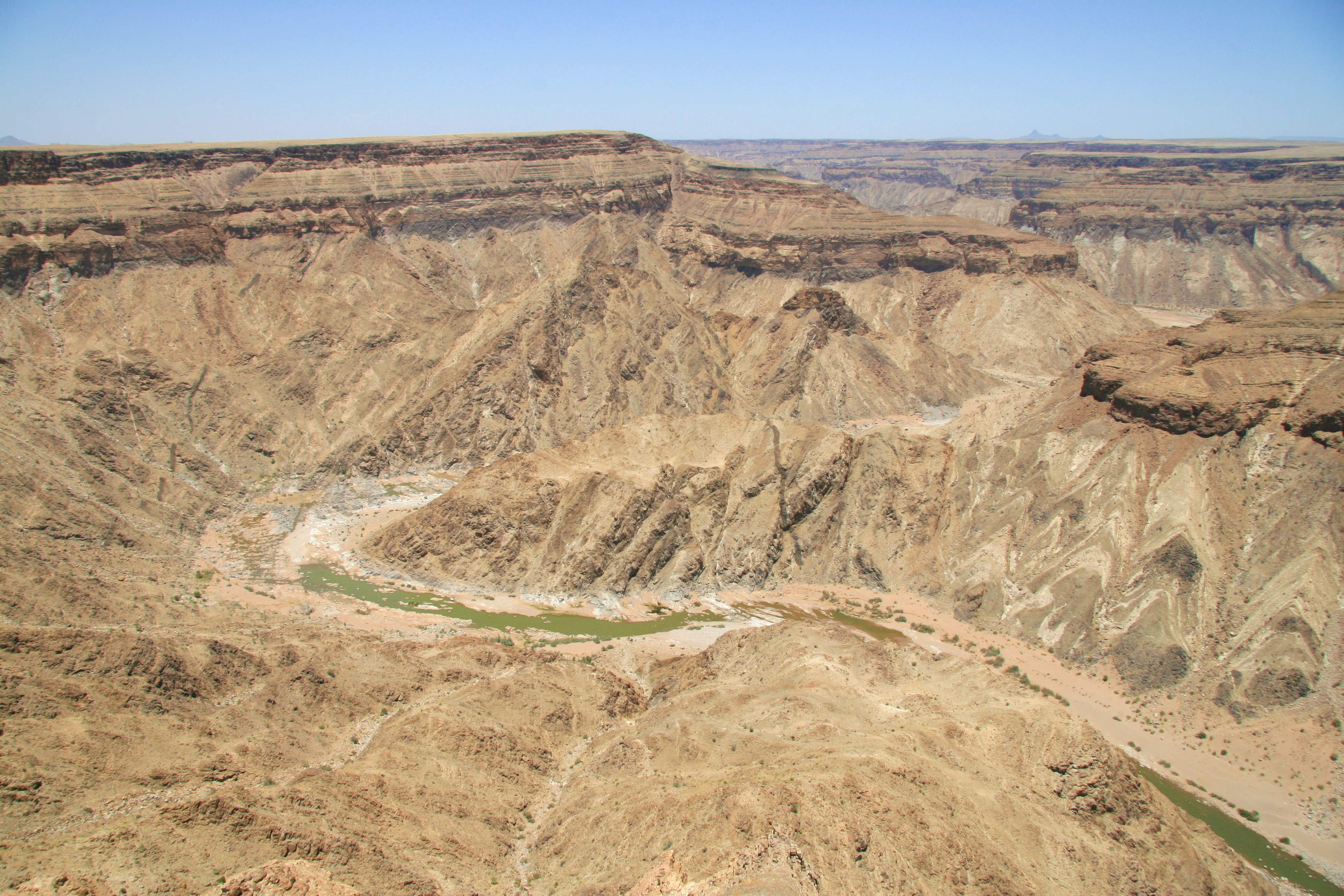 Fishriver in Mid-Summer. Dry, but beatiful.